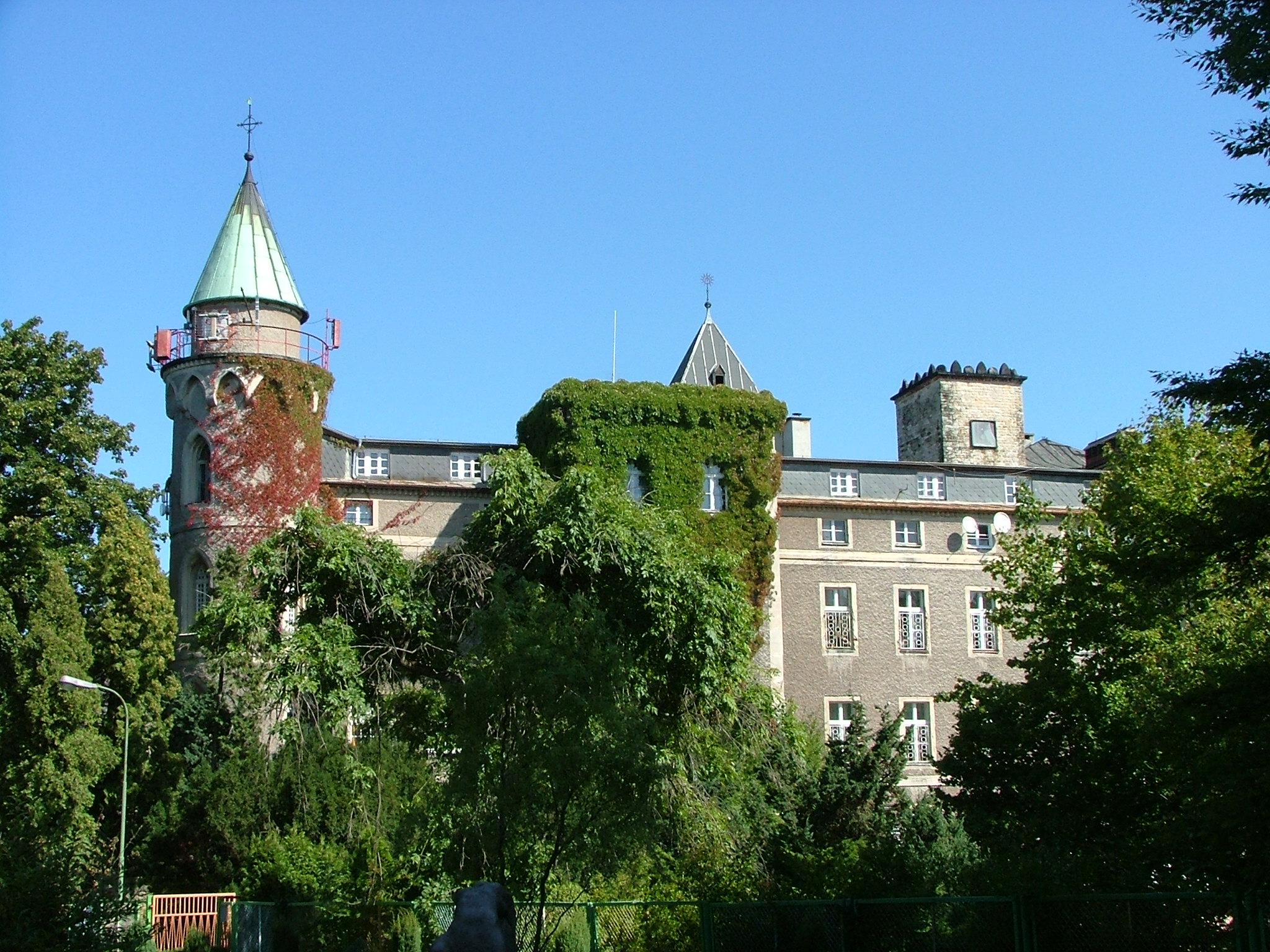 Lesna Castle in Szczytna.